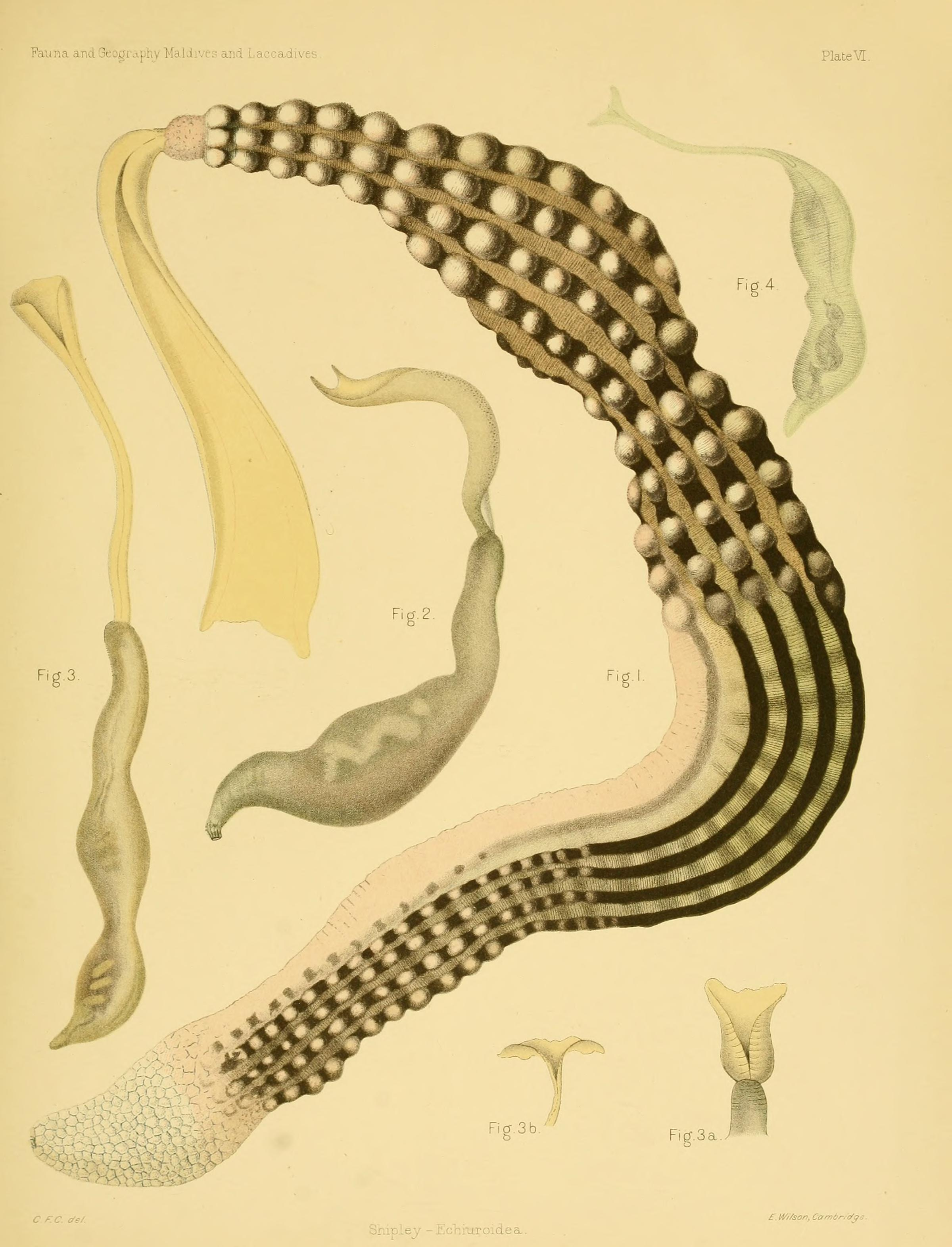 Plate VI. All the figures represent the life-size of the animals each with its proboscis in a state of moderate expansion. The figures were drawn by Mr. C. Forster Cooper and represent the natural colour of the living animals Fig. 1. Thalassema erythrogrammon (=Ochetostoma erythrogrammon) Fig. 2. Thalassema diaphanes Fig. 3. Thalassema moebii (=Anelassorhynchus moebii) (3a. represents the proboscis of this species when contracted; 3b. represents the tip of the same when expanded) Fig. 4. Thalassema semoni (=Anelassorhynchus semoni)